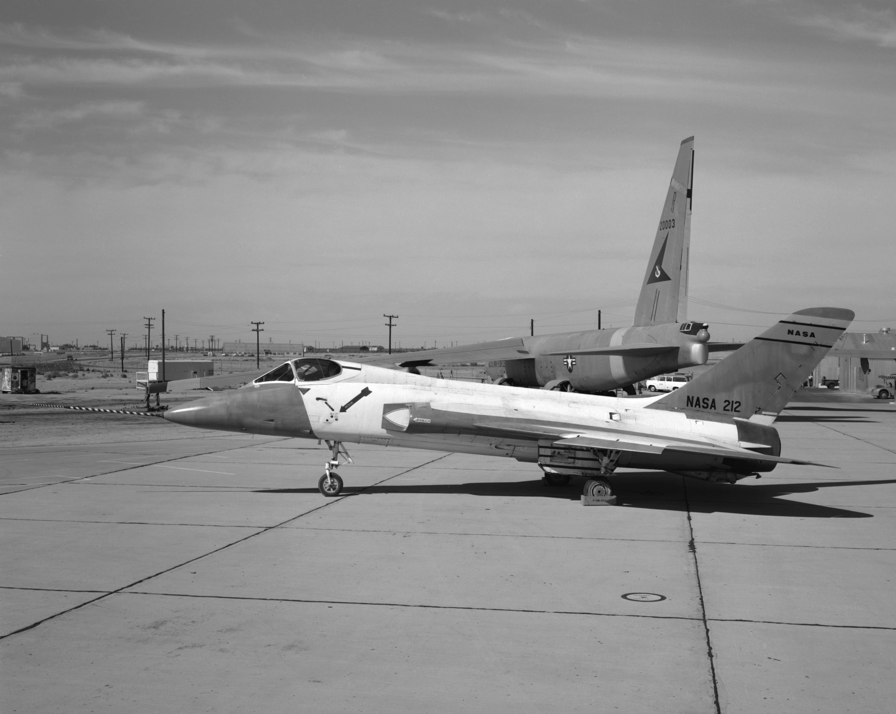 F5D Skylancer NASA 212 modified as the X-20 Dyna-Soar vision field simulator.